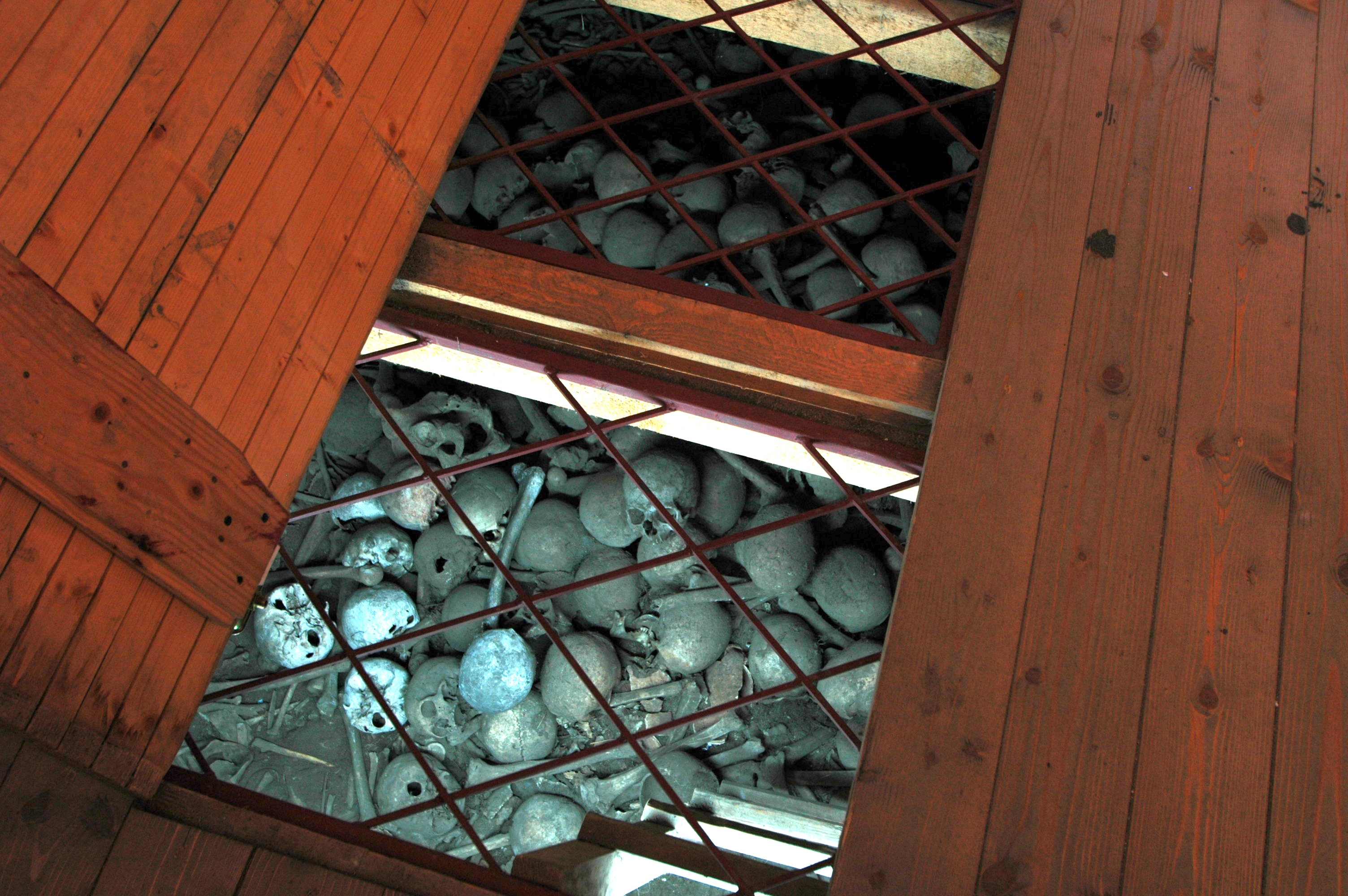 Chapel of Skulls in Czermna, Poland. Kaplica Czaszek w Czermnej. Poland - Czermna - Chapel of Skulls - cellar with skulls